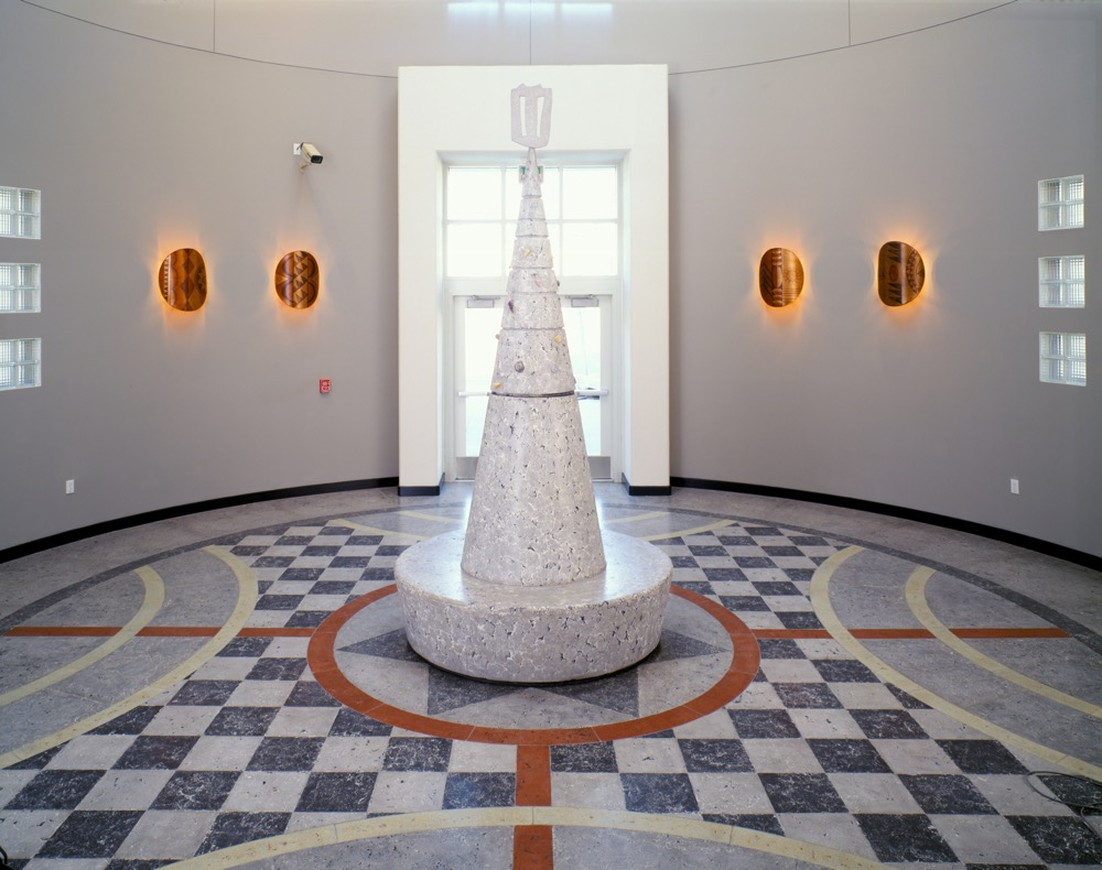 Granary Bobo Bench, Akamba Inlay Floor, Maasai Warrior Shield Sconce